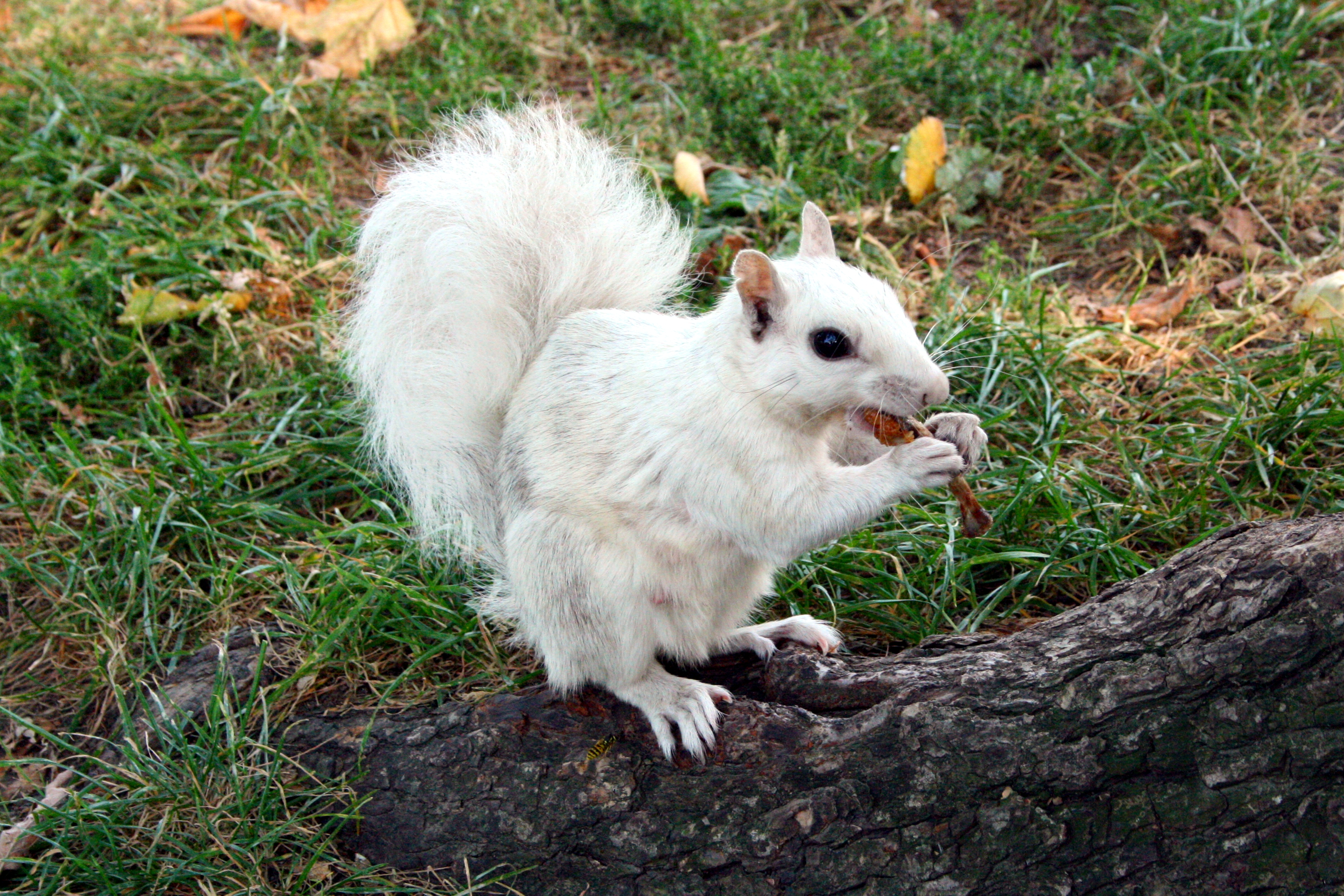 White Leucistic Squirrel in Parc Jeanne-Mance, Montreal, Québec.